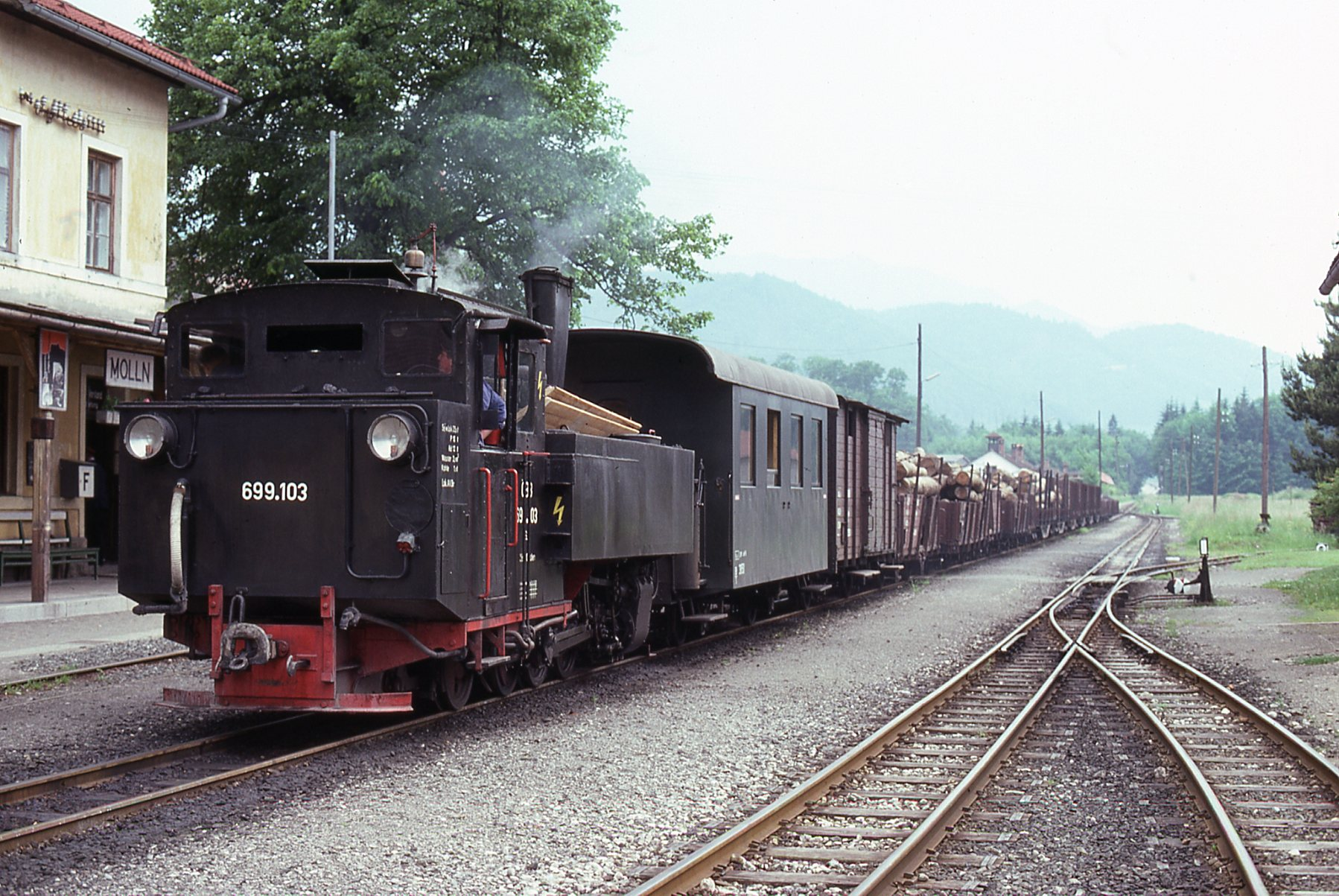 Goods train of the Steyrtalbahn at Molln station, engine is 699.103.